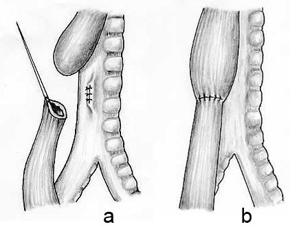 The operative repair of an oesophageal atresia and distal tracheooesophageal fistula